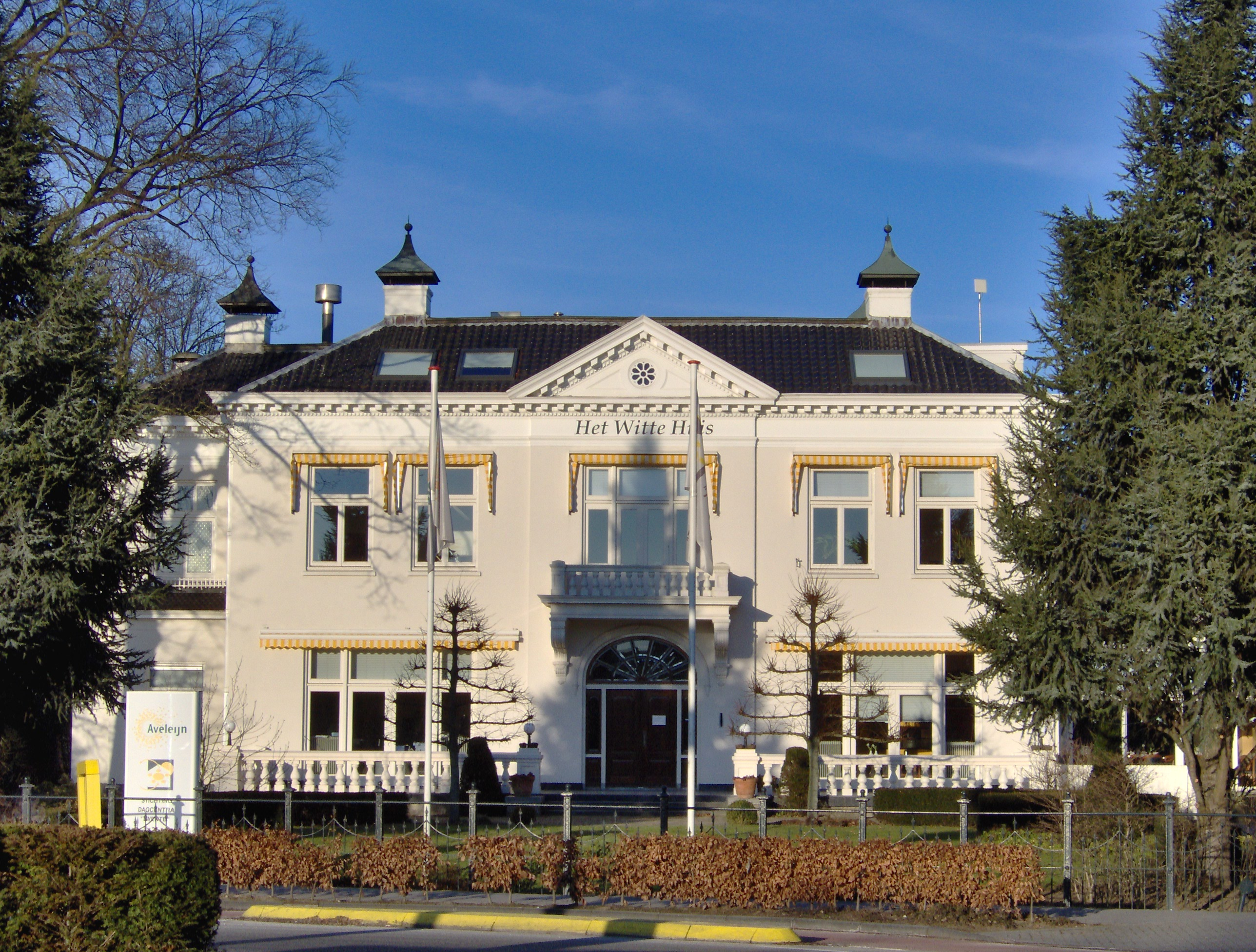 The Witte Huis, the White House, the most prominent villa built by the Spanjaard family in Borne in the province of Overijssel, the Netherlands.